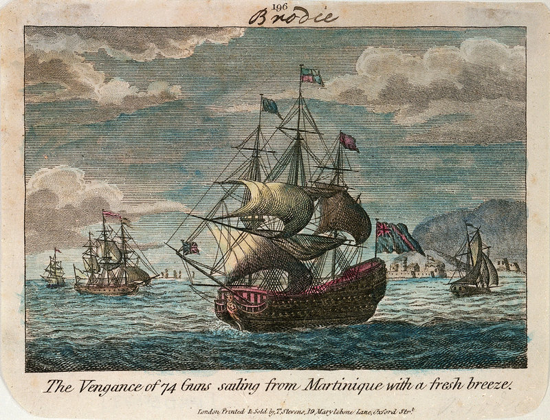 The Vengeance of 74 Guns sailing from Martinique with a fresh breeze; engraving, coloured